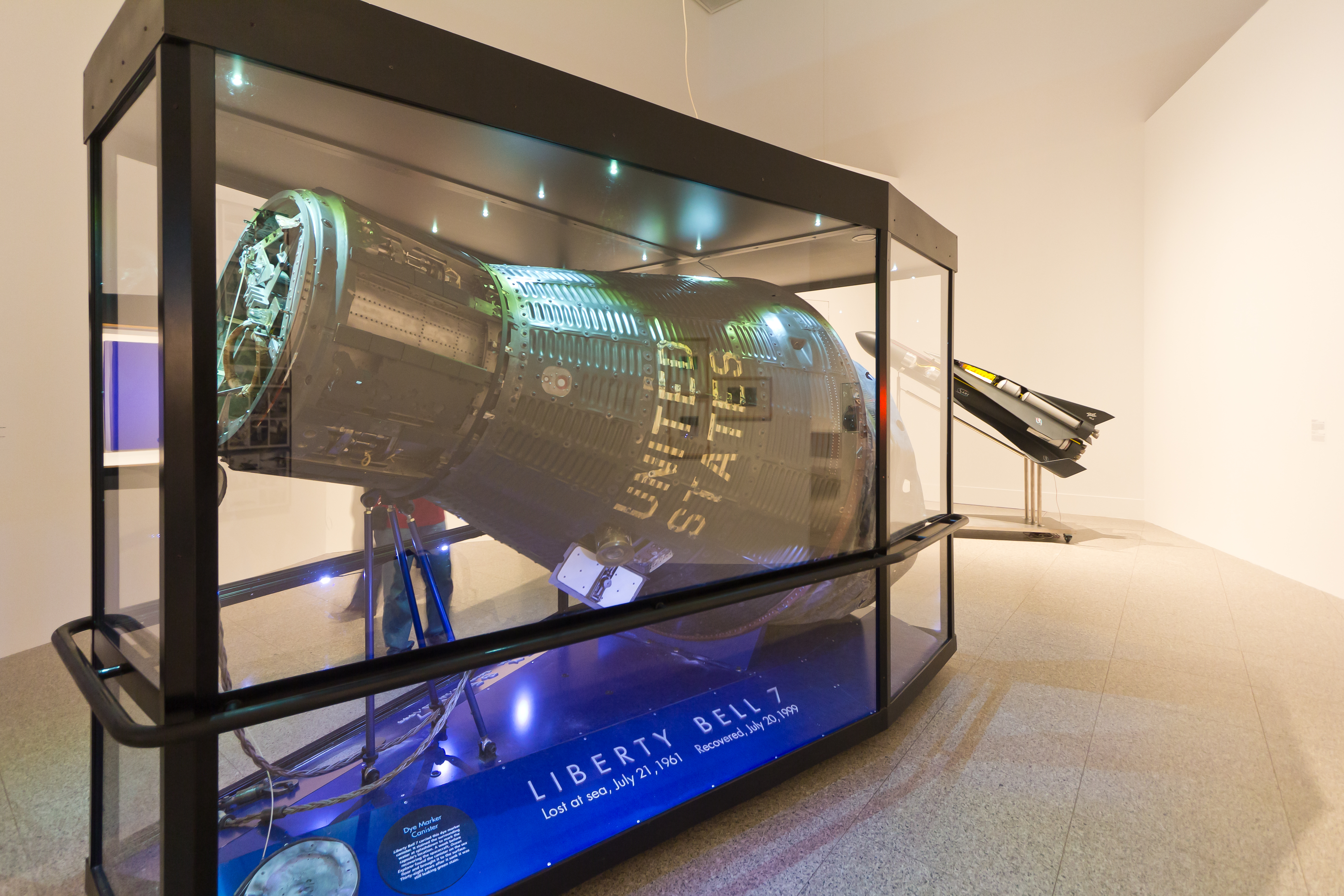 Kunst- und Ausstellungshalle der Bundesrepublik Deutschland (Bundeskunsthalle) - Ausstellung „Outer Space - Faszination Weltraum“ - Impressionen Foto: Das Raumschiff Liberty Bell 7 der Mission Mercury-Redstone 4 (MR-4). Katalog-Nummer 254